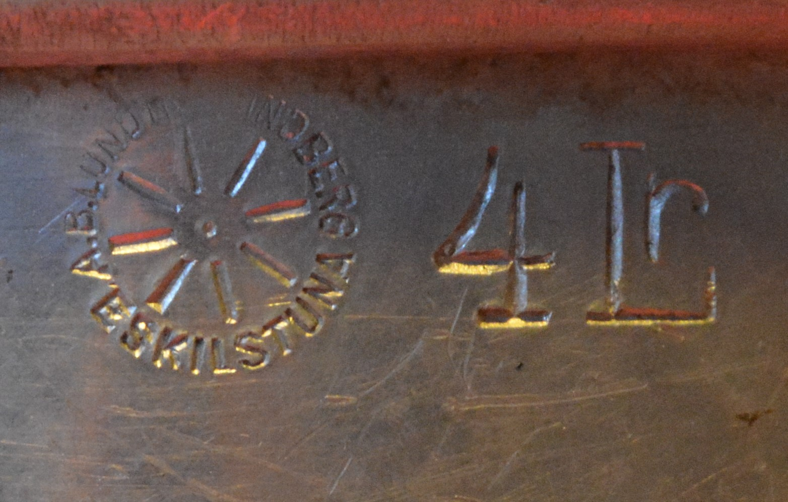 Manufacturer's logo on a 4 litre milk can made of aluminium by Lundin & Lindberg in Eskilstuna, Swed